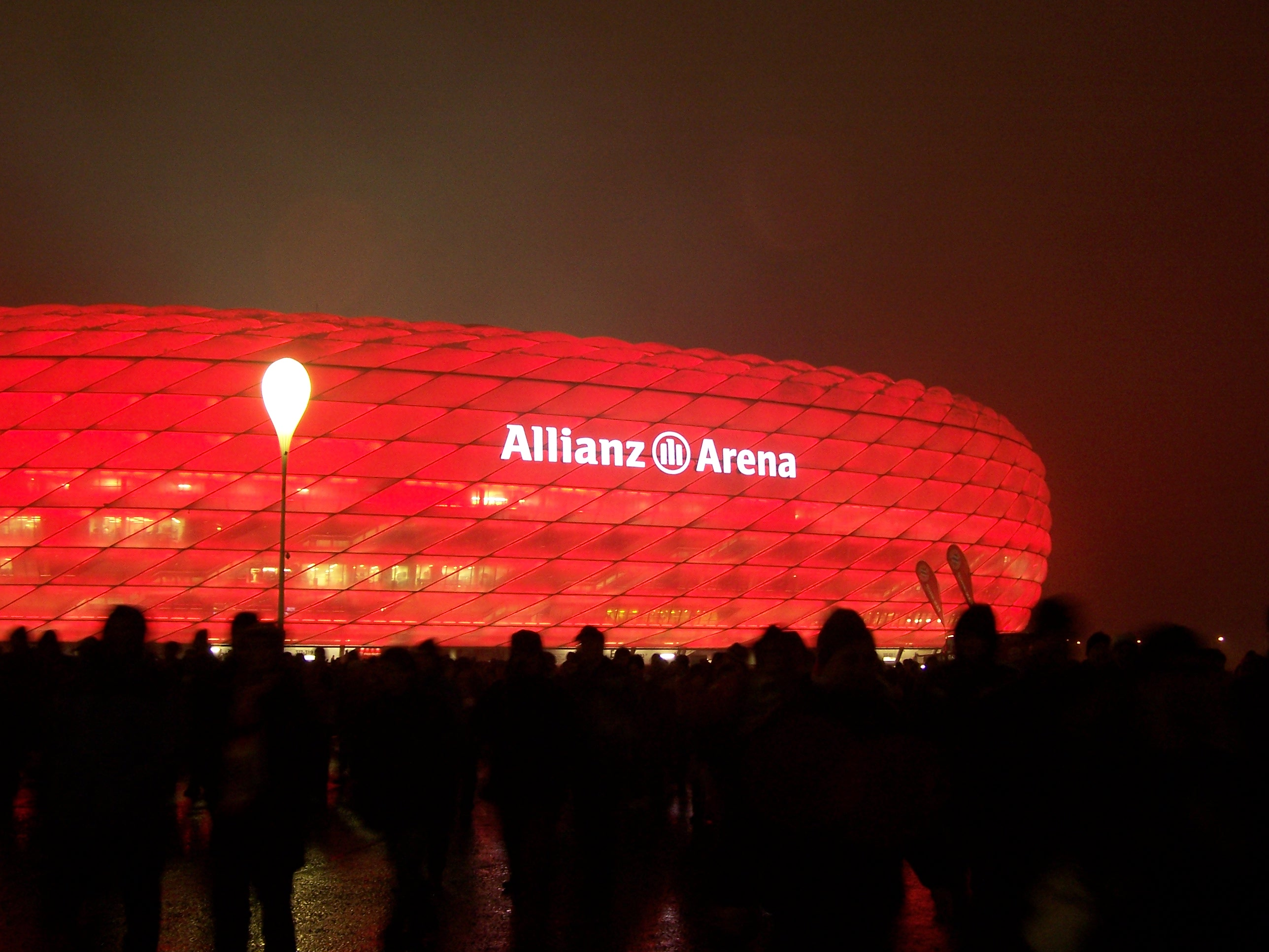 Picture of the Allianz Arena at night. The arena is still lit in red after the home game against Bayer 04 Leverkusen on 2012-10-28.